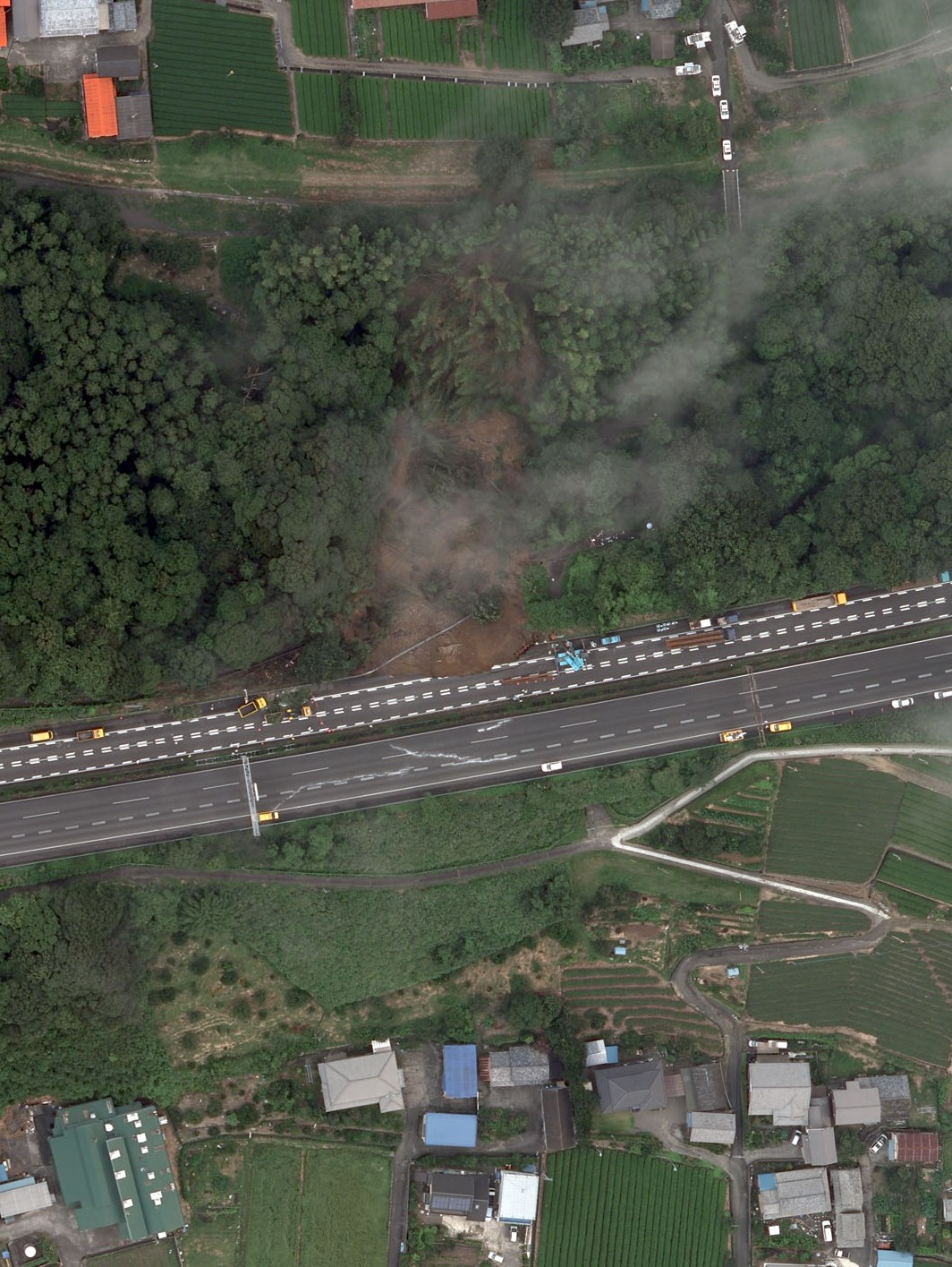 Tōmei Expressway was broken by Suruga Bay earthquake in Makinohara City, Shizuoka Prefecture on August 11, 2009. (For terms of use, see 国土地理院コンテンツ利用規約｜国土地理院.)